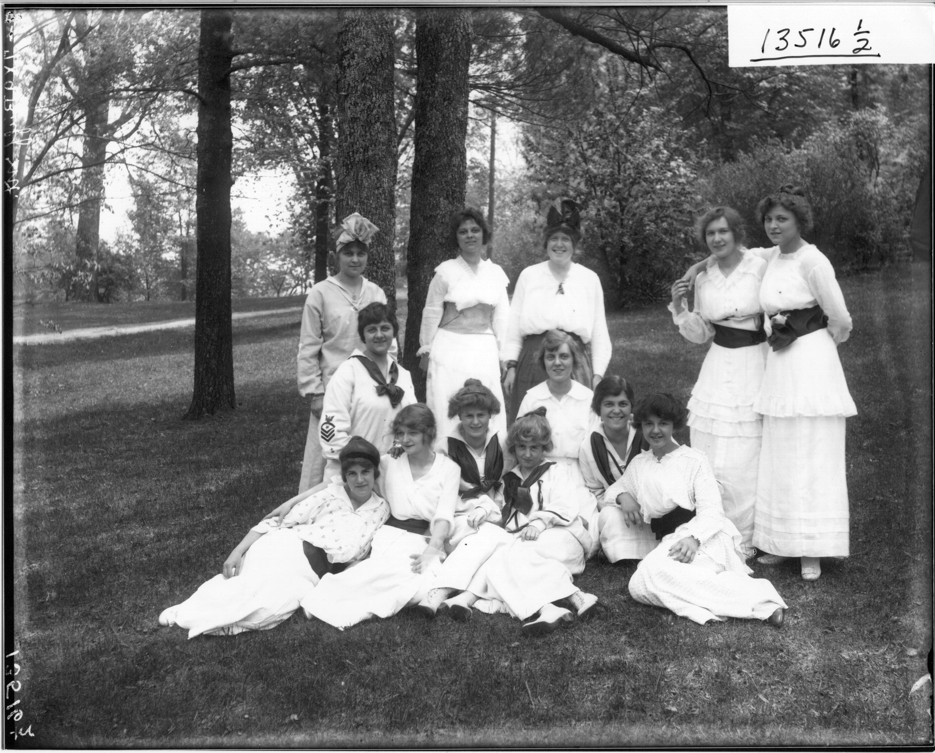 Persistent URL: Subject (TGM): Women's education; Military uniforms; Group portraits; Location: Oxford, Ohio [Some are in military uniform]